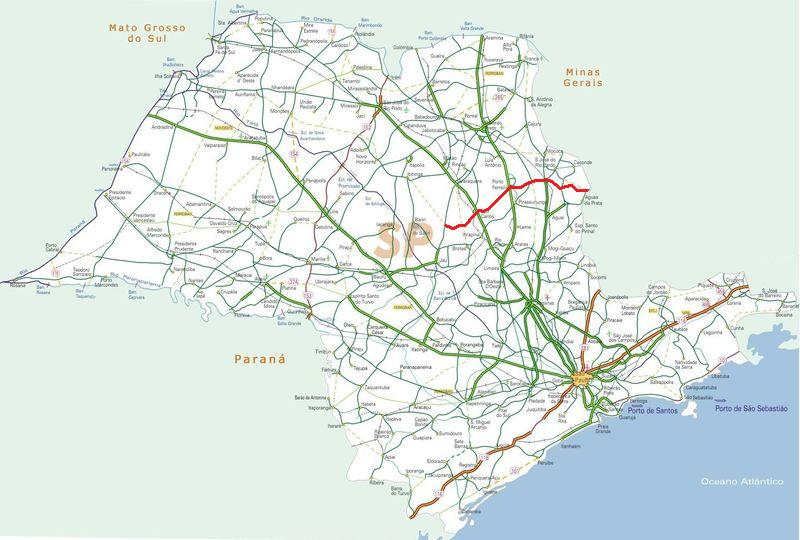 Map of SP-215.